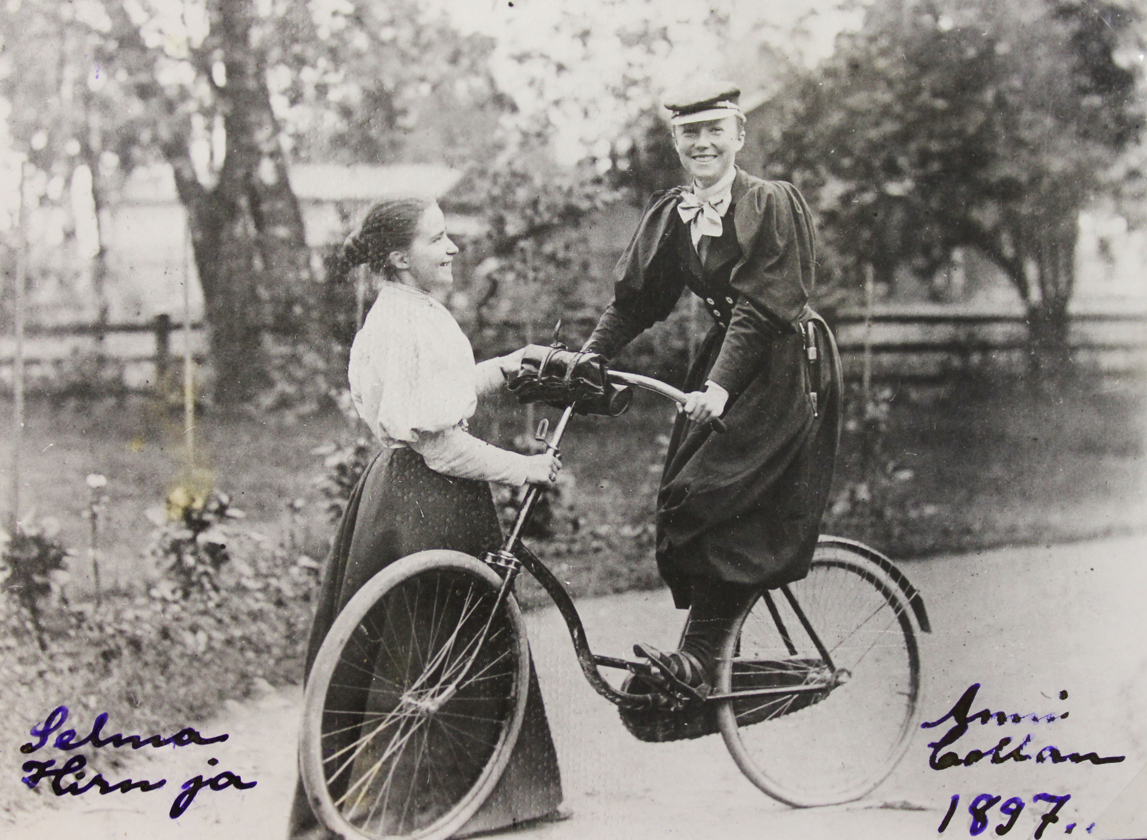 Photograph of Selma Hirn and Anni Collan (1876–1962).